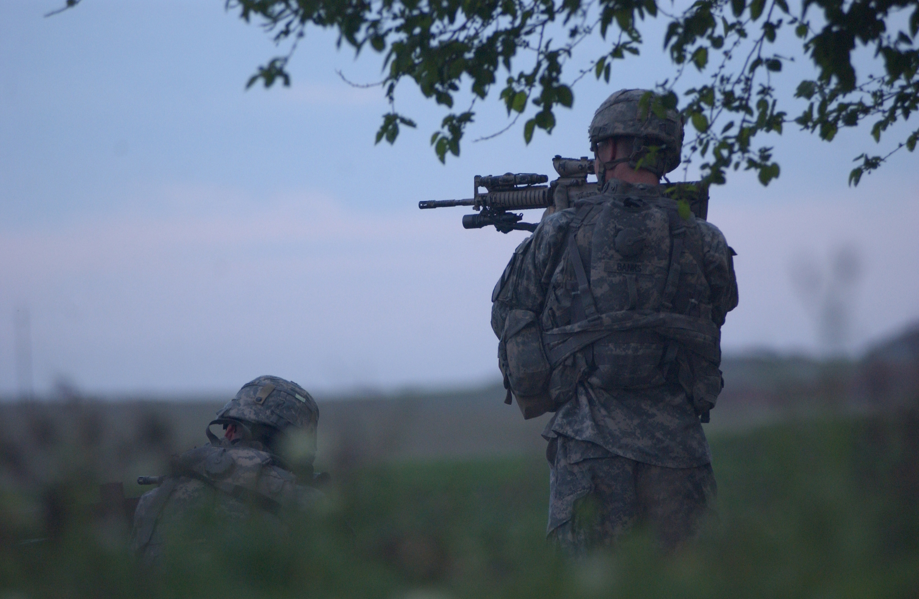 U.S. Army Spc. Tommy Banks, a sniper with 2nd Battalion, 7th Cavalry Regiment, 4th Brigade Combat Team, 1st Cavalry Division, scans for enemy snipers at the Nineveh ancient ruins in Mosul, Iraq, April 4, 2007. Location: CAMP MAREZ, MOSUL IRAQ 3